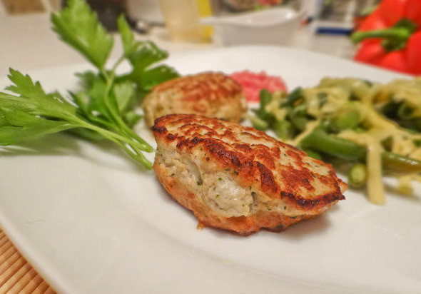 Cutlets made of minced chicken meat, a Russian recipe